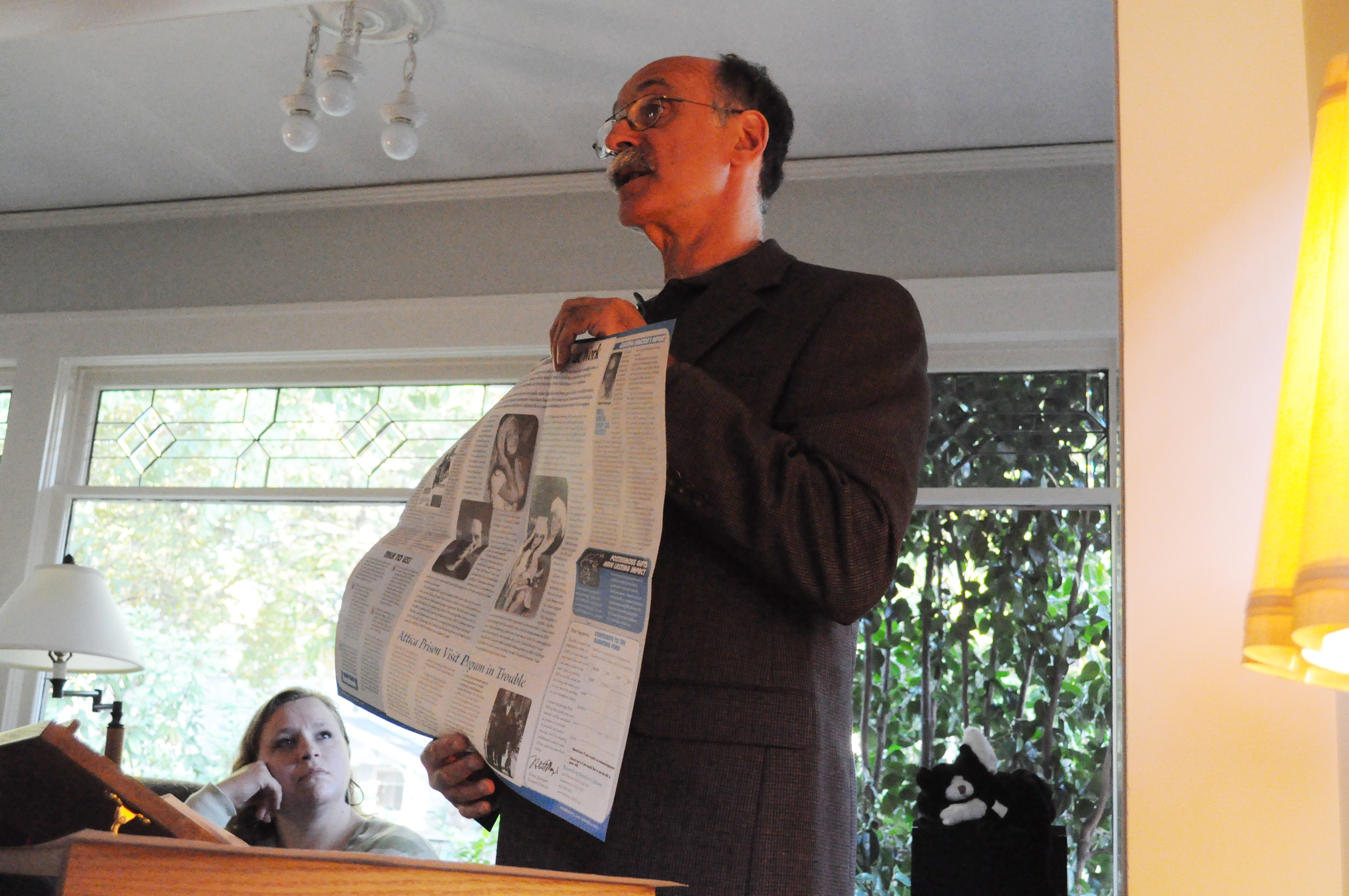 Robert Meeropol speaking in Seattle, Washington at a fundraiser of the Rosenberg Fund for Children (RFC). He is holding a copy of the RFC newsletter.